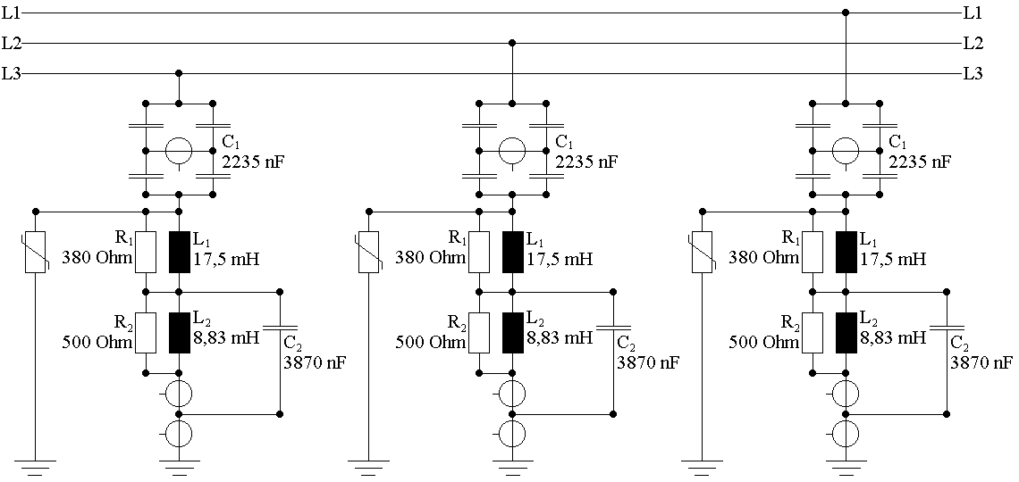 AC Filter of Kontek HVDC. Own work according to brochure of VEAG from 1996 and description on